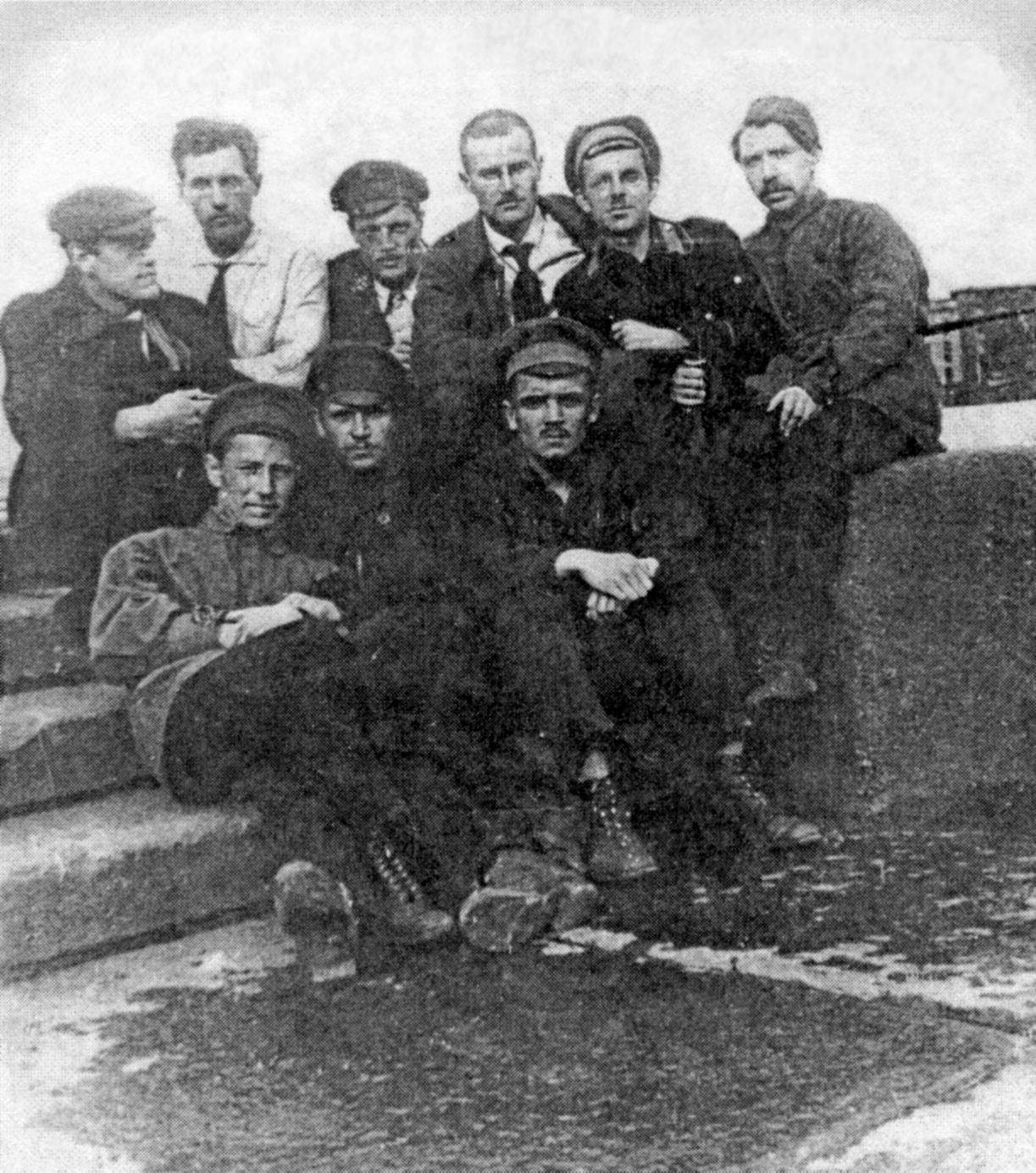 Chemical circle ("Chem-kruzjok"). Students of Petrograd University. 1923